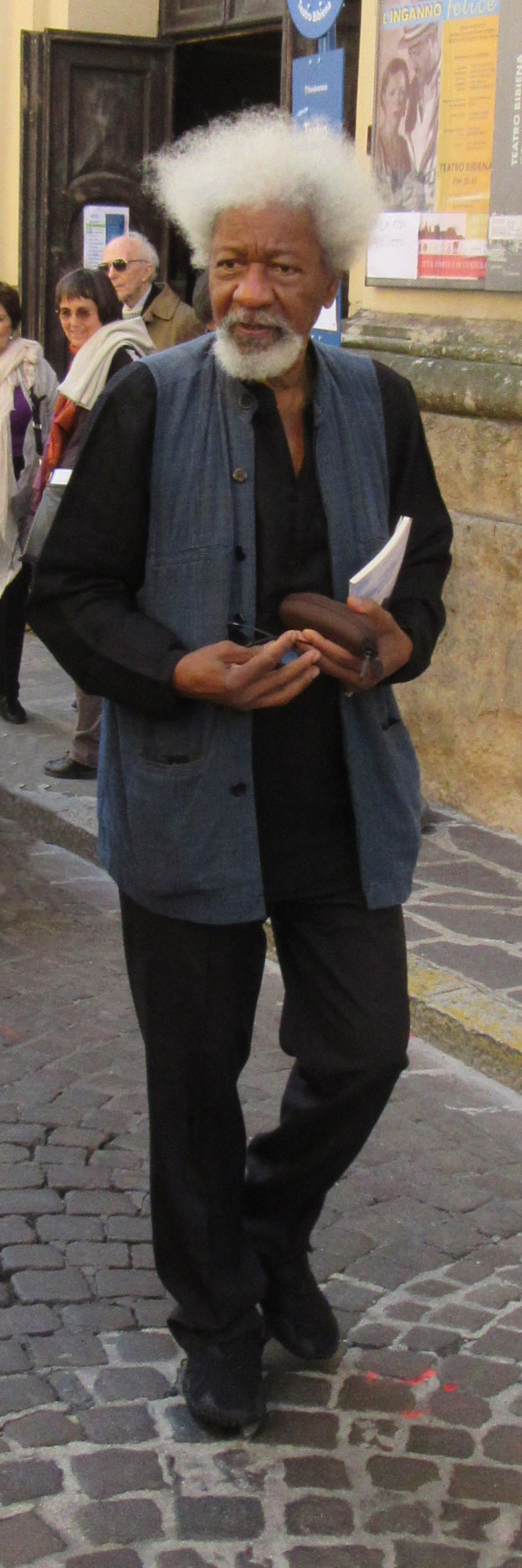 Wole Soyinka at Festivalettertuta 2019, in Mantova, Bibiena Theatre.